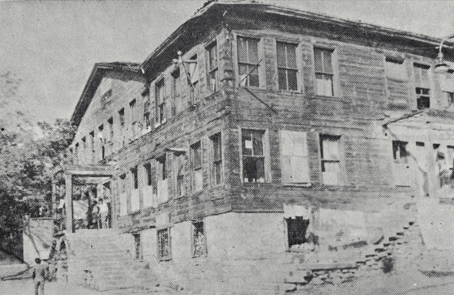 On 13 March 1870, Mehmed Kâmil Bey, known by the nickname “Mahşer Midillisi” (literally, meaning, pony of the apocalypse), signed a deed of endowment stipulating that there should be a prayer recitation at the Kasımpaşa Mevlevi Dervish Lodge for the soul of his late wife. In return for their prayers, the endowment would meet the candle and coffee needs of the dervishes. What made the endowment rather interesting was that it was not offered in cash but in bonds to the amount of £260, the yearly return of which would be delivered to the lodge. Since these bonds were to be deposited at the Ottoman Bank, the sheiks became bank customers. Thus was born an interesting link between tradition and modernity, which would continue until 1925, when a new law banned all dervish lodges in Turkey. bit.ly/1sPz4AP SALT Research, Ottoman Bank Archive “Mahşer Midillisi” lakabıyla bilinen Mehmed Kâmil Bey, kaybetmiş olduğu eşinin ruhuna dua okunması için 13 Mart 1870 tarihli bir senetle Kasımpaşa Mevlevihanesi’ne bir vakıfta bulundu. Mevlevihanedeki tarikat mensuplarının kandil ve kahve ihtiyaçlarını karşılayacak bu vakfın en ilginç tarafı, vakfedilenin 260 sterlin değerinde tahviller olmasıydı. Üstelik, bu tahvillerin Osmanlı Bankası’na emanet edilmesiyle Mevlevihane şeyhleri dolaylı olarak banka müşterisi konumuna gelmişti. Gelenekle modern dünyayı bir araya getiren bu ilginç ilişki, 1925’te tekkelerin kapatılmasına dair kanunun çıkarılmasıyla sona erdi. bit.ly/1sPyQtw SALT Araştırma, Osmanlı Bankası Arşivi